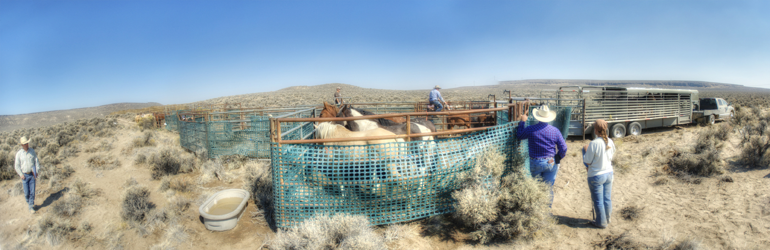 The BLM determined that the emergency removal of the Paisley Desert wild horse herd is necessary to ensure their survival until the fall/winter rains come. The limited water sources and growing necessity for the wild horses to be required to travel great distances to other water sources will begin to negatively affect their health. Approximately 200 wild horses will be gathered using a helicopter and then transported by trailer to the Burns Wild Horse Corrals. The Paisley Desert horses will be separated by gender and retained in separate corrals. Depending on environmental conditions, some of the horses may be returned to the Herd Management Area in order to bring the wild horse population to the appropriate ecological Animal Management Level. The rest of the horses will be cared for and made available for adoption.